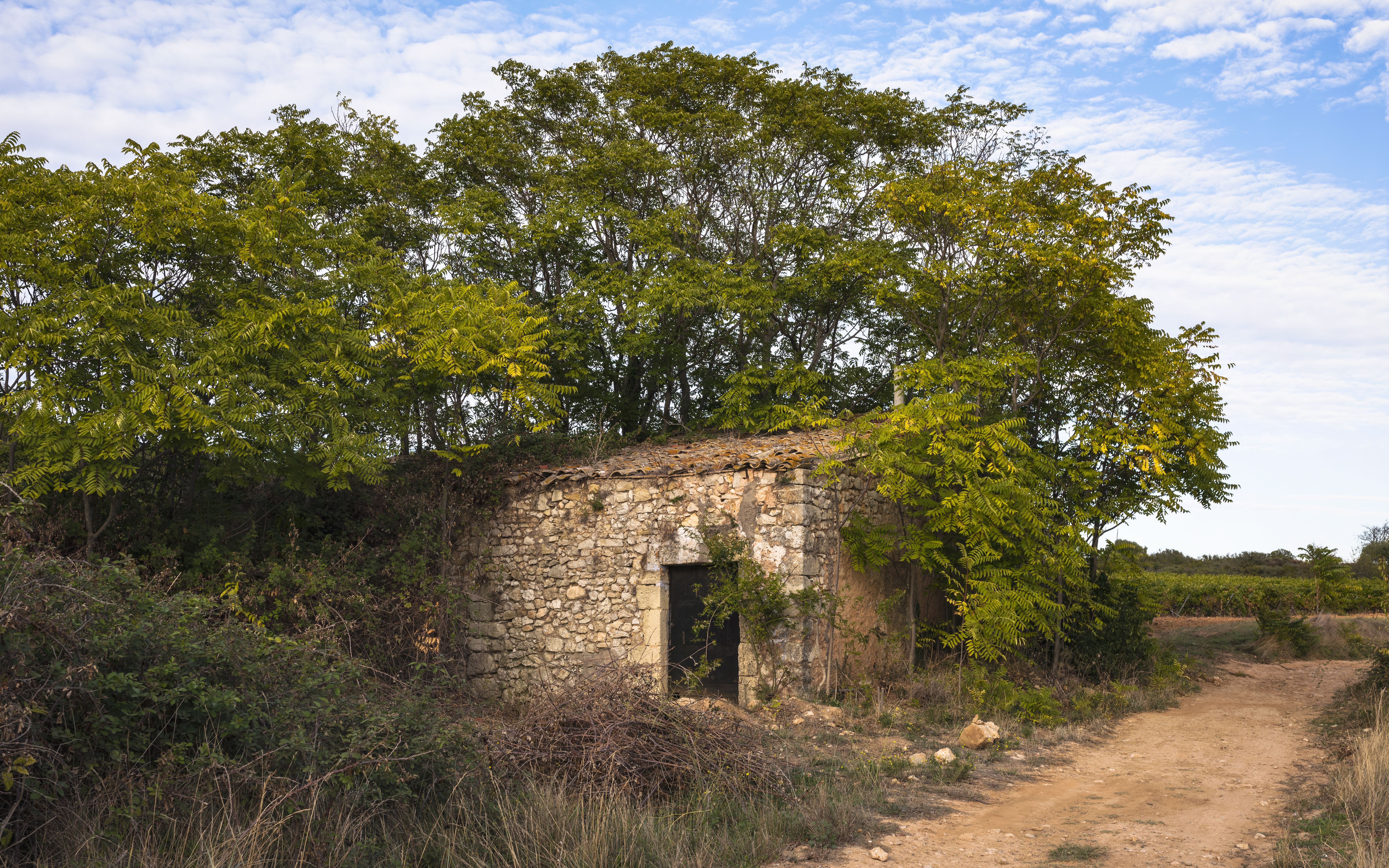 A abandonned mazet (occitan language name for a stoneworked construction) in the commune of Castelnau-de-Guers, Hérault, France